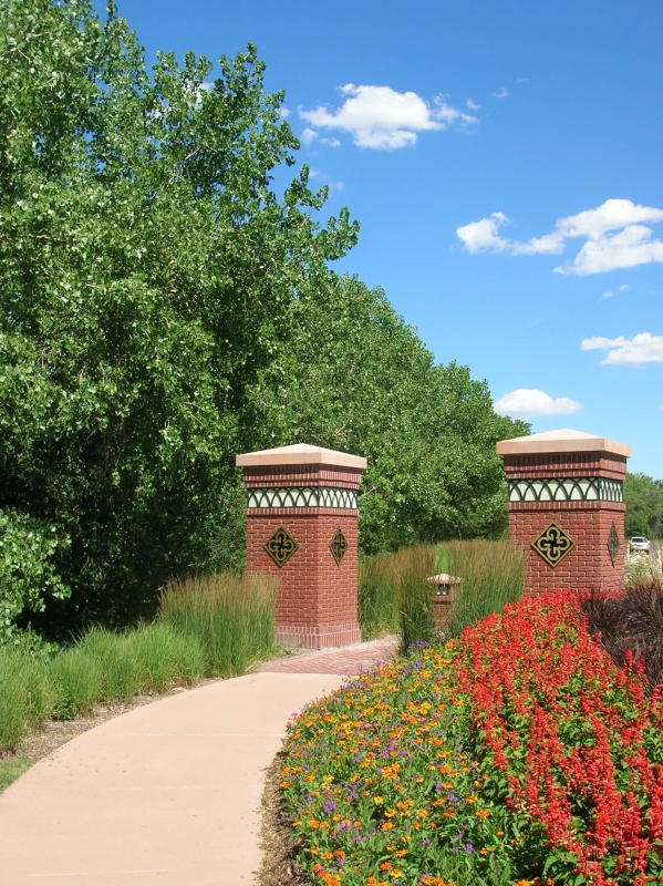 An east-facing view of the bike path along Cherry Creek in Glendale, Colorado.